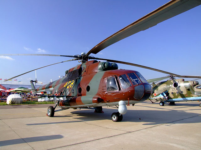 MAKS Airshow-2007. Mi-8.